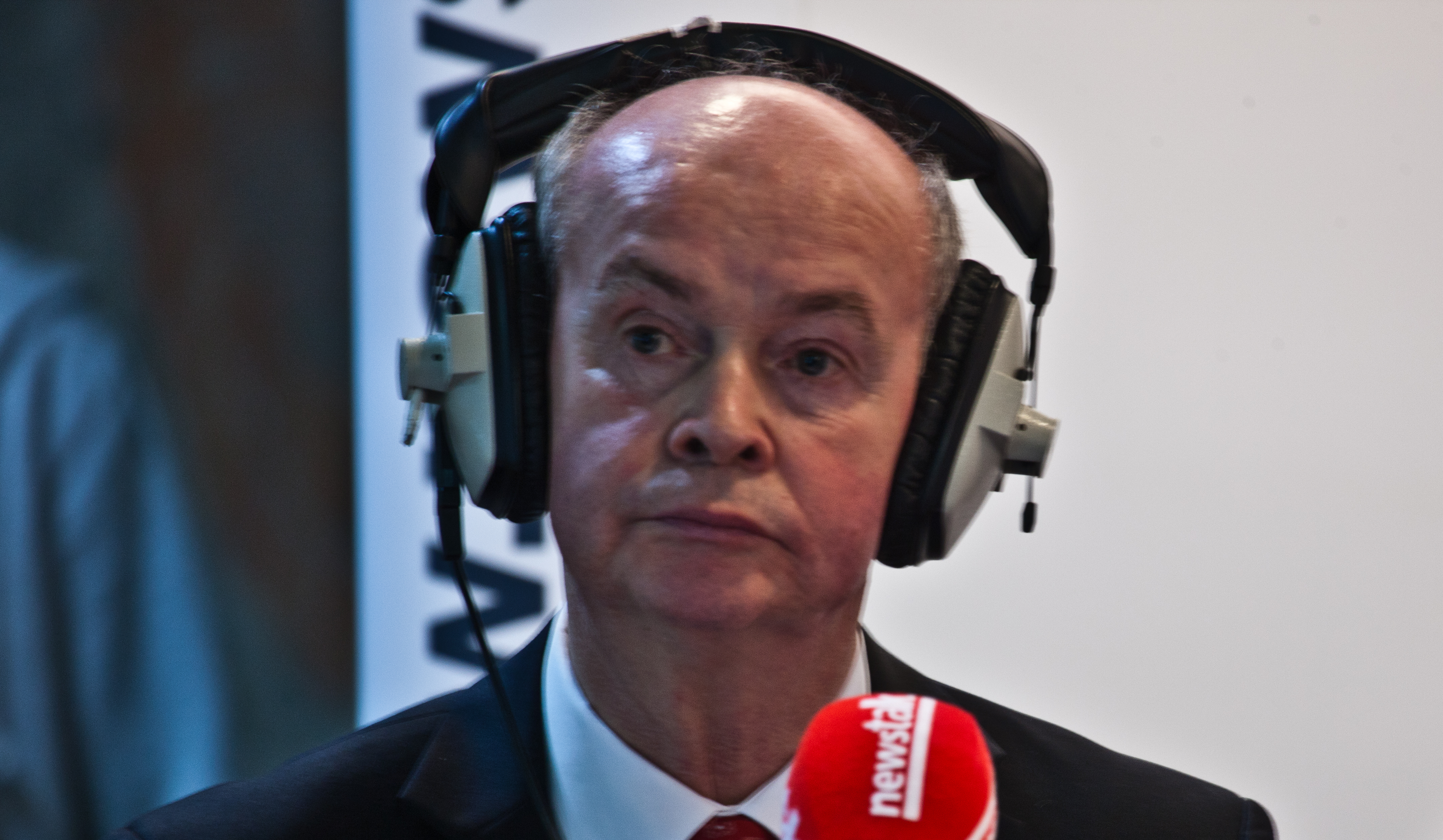 Pat Carey, formally a TD for the Dublin North West constituency, Minister of State, Chief Whip and Minister Community, Equality and Gaeltacht Affairs. This photograph was taken in the RDS during the 2011 General Election, Ireland.